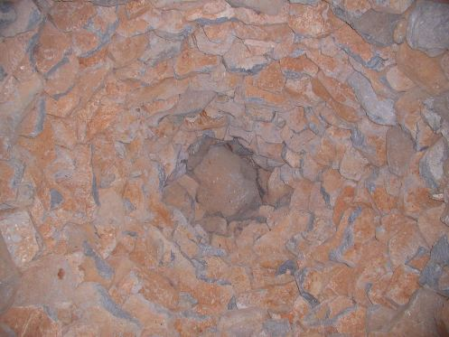 Corbelled vault of a dry stone hut in the department of Hérault, France.